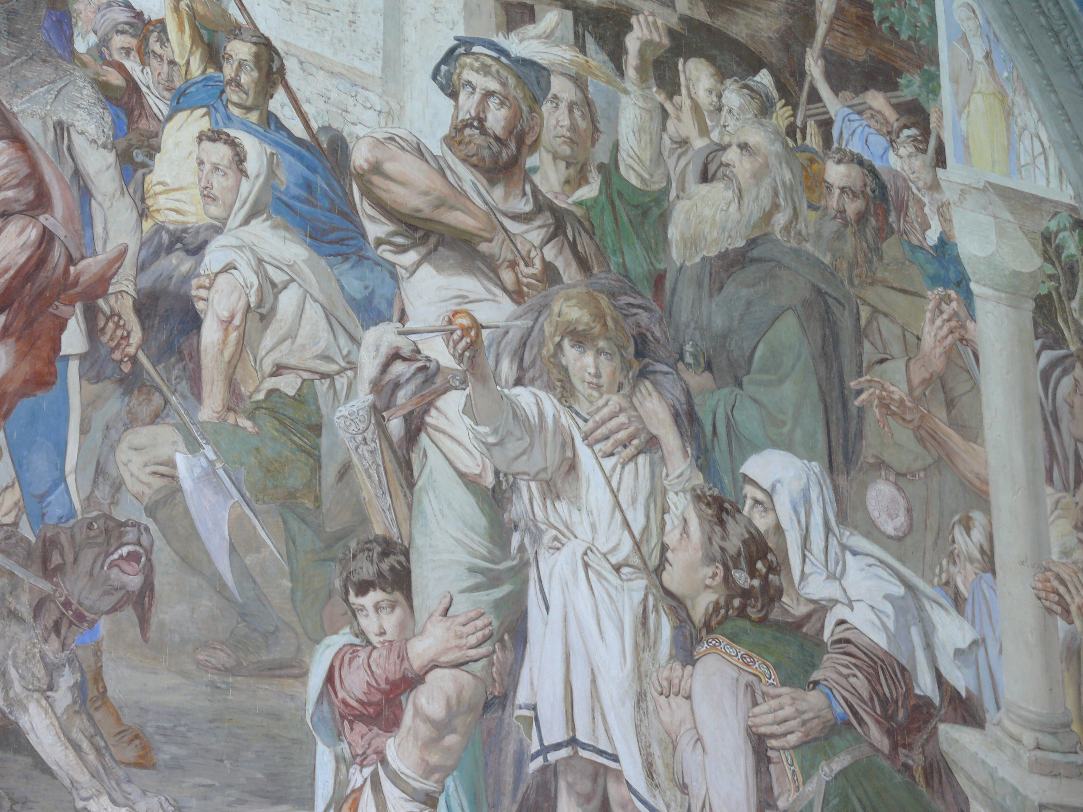 Fresco depicting William Tell and his son after William shot the apple of the boy's head. Fresco by Ernst Stückelberg (1831-1903) in the Tellskapelle, Switzerland.